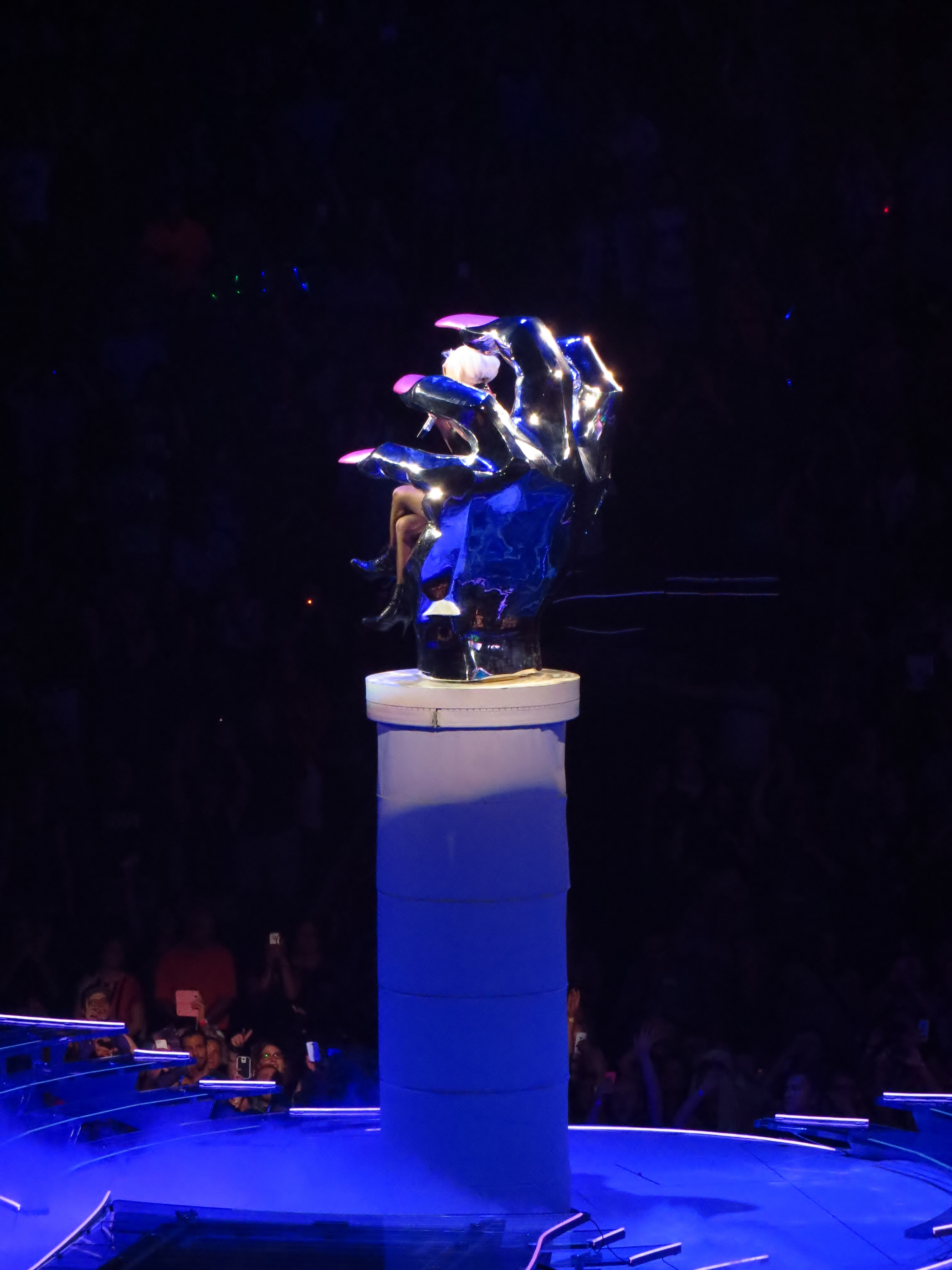 Lady Gaga, ARTPOP Ball Tour, Bell Center, Montréal, 2 July 2014 (53) Gaga performing on ArtRave: The Artpop Ball tour